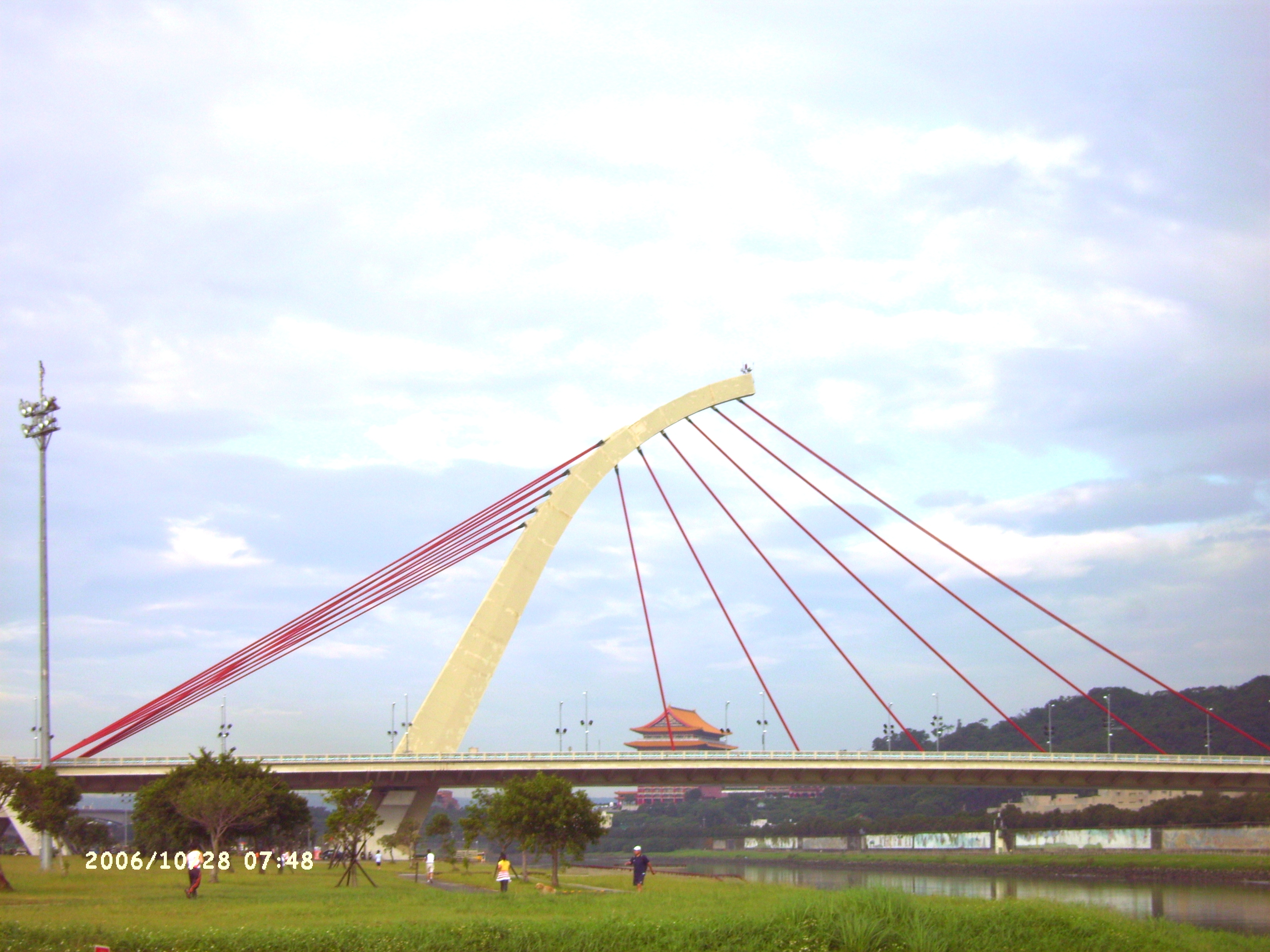 Taipei City: Dazhi Bridge Placemark.